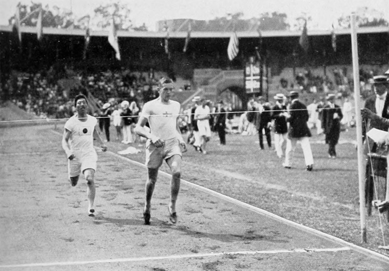 The fourth heat of the men's 400 metre competition at the 1912 Summer Olympics. Paul Zerling leads Yahiko Mishima.